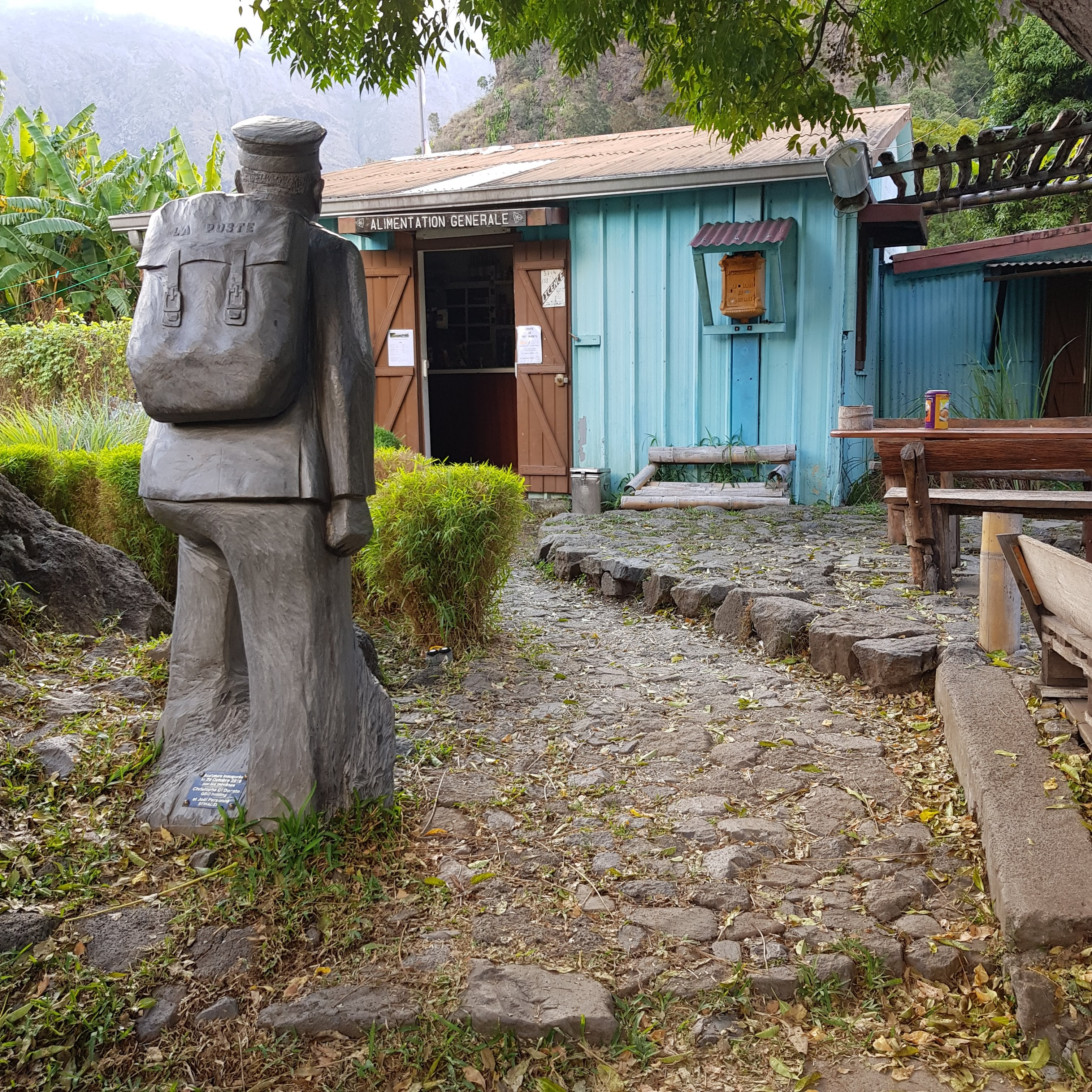 Cottage located in the islet of Grand-Place-School, on the feeling of great hiking GR R2 north of the circus of Mafate, with a view of the back of the statue with the effigy of Mafate factor Irvin Pausé, which it was home.